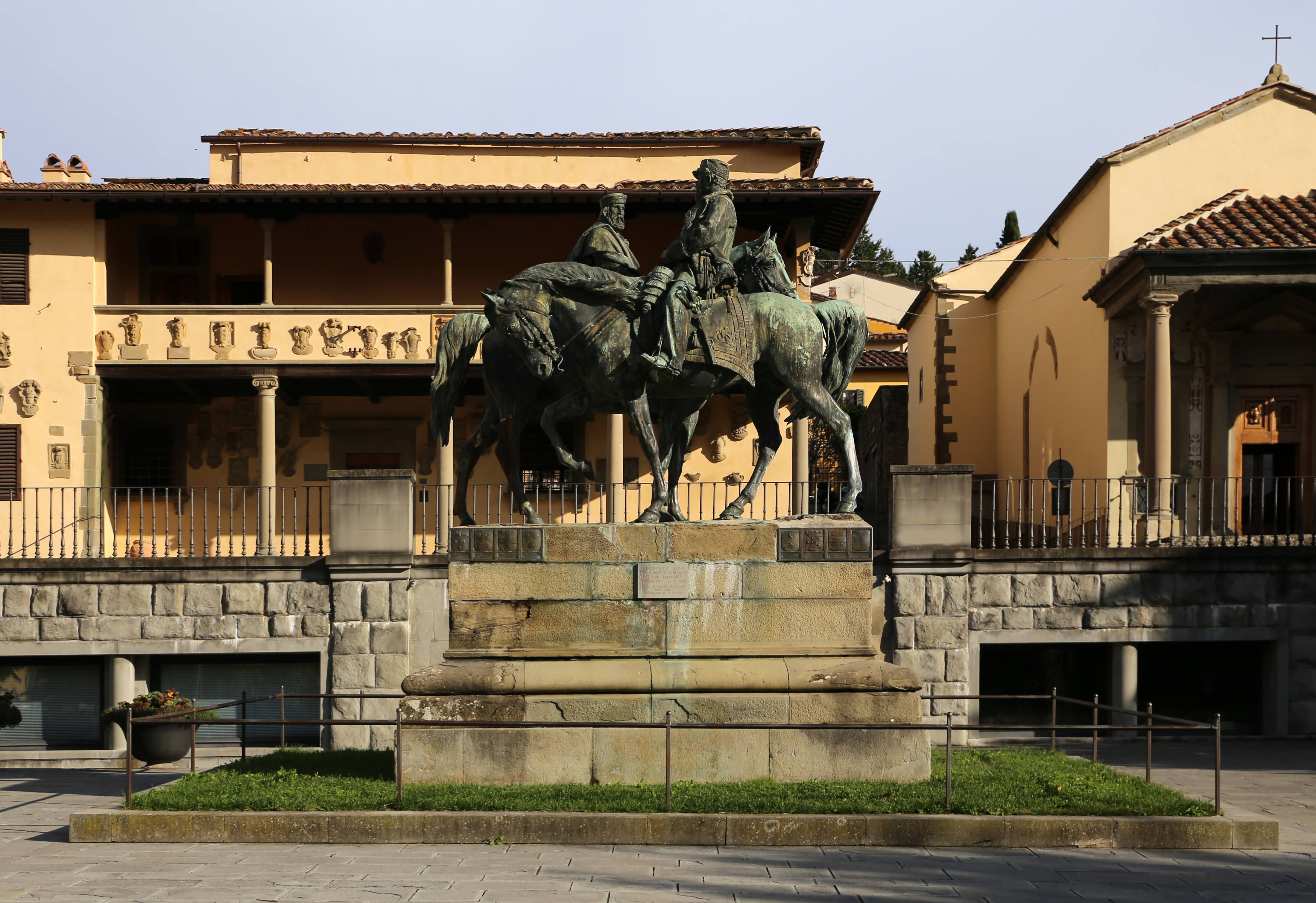 Fiesole miscellany